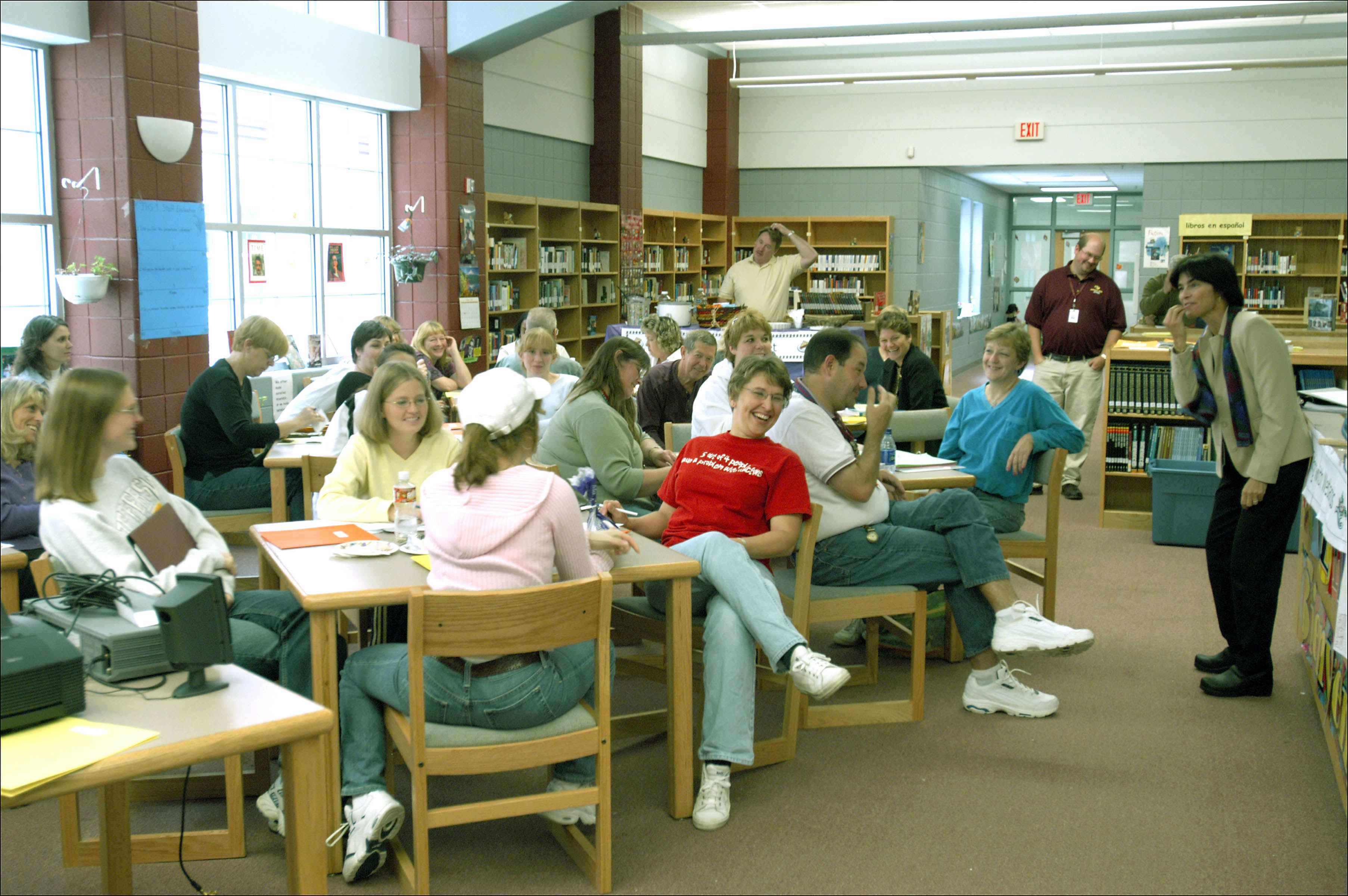 Image title: People in workshop class Image from Public domain images website